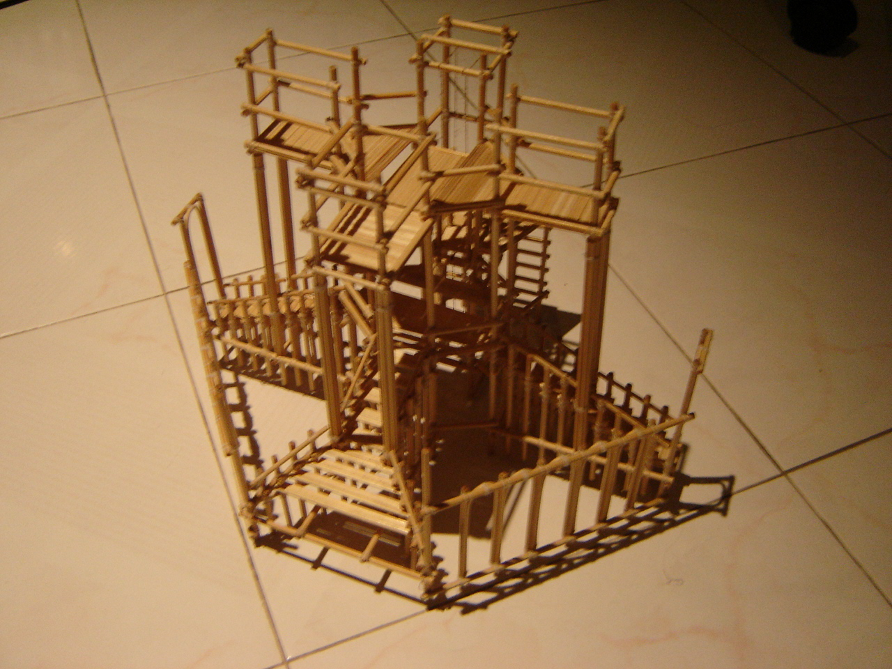 Contents 1 2003 Atlantis Tower 2 2003 Atlantis Tower 3 Licensing 4 Original upload log 2003 Atlantis Tower This is a view of the 2003 Atlantis Tower which is part of the 2003 Atlantis Campsite by the 39th Kinta Scout Troop from Malaysia. The top part of the model has been cut away, leaving an unfinished model.